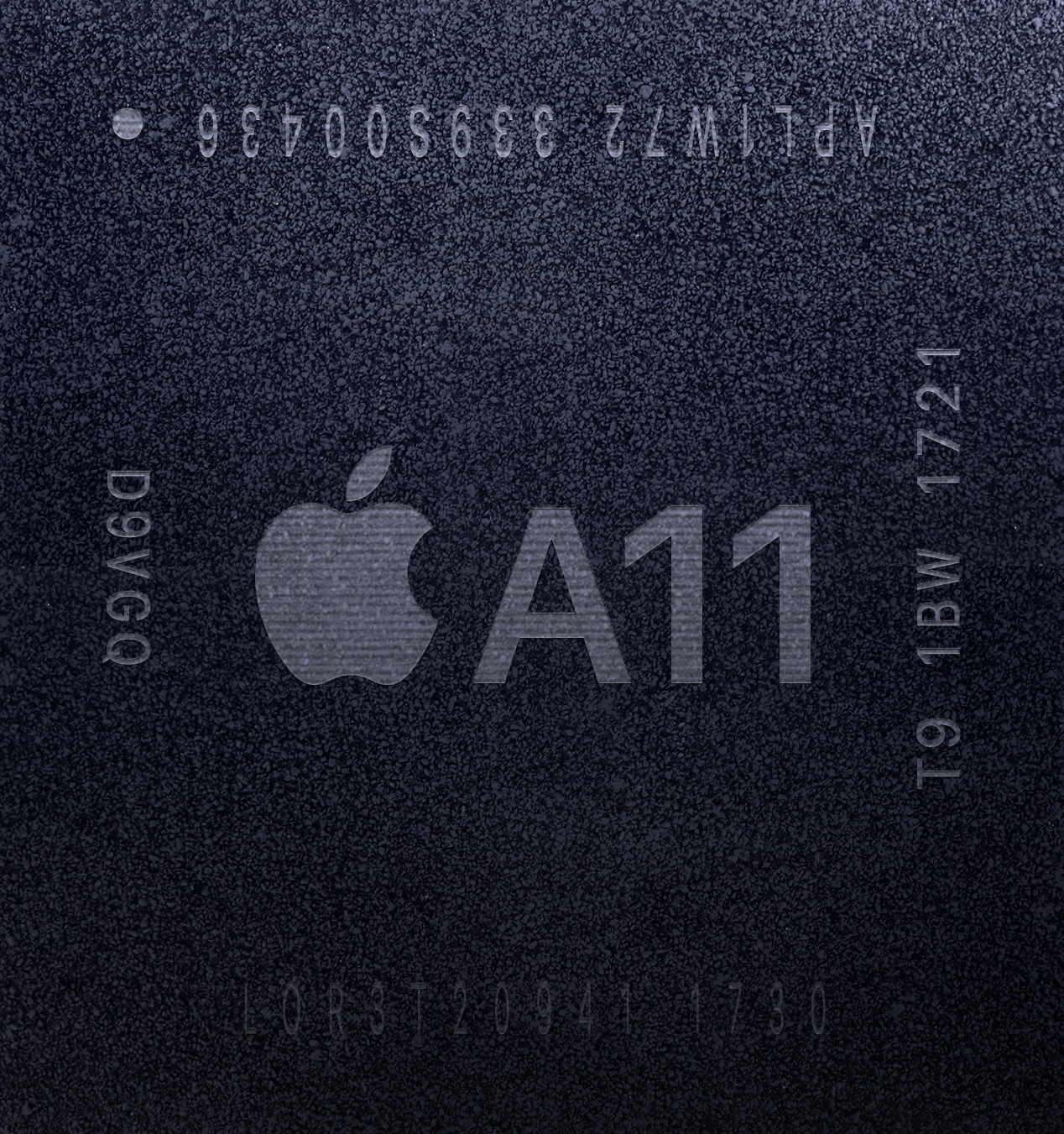 Illustration of the Apple A11 system-on-a-chip. Inspiration found here